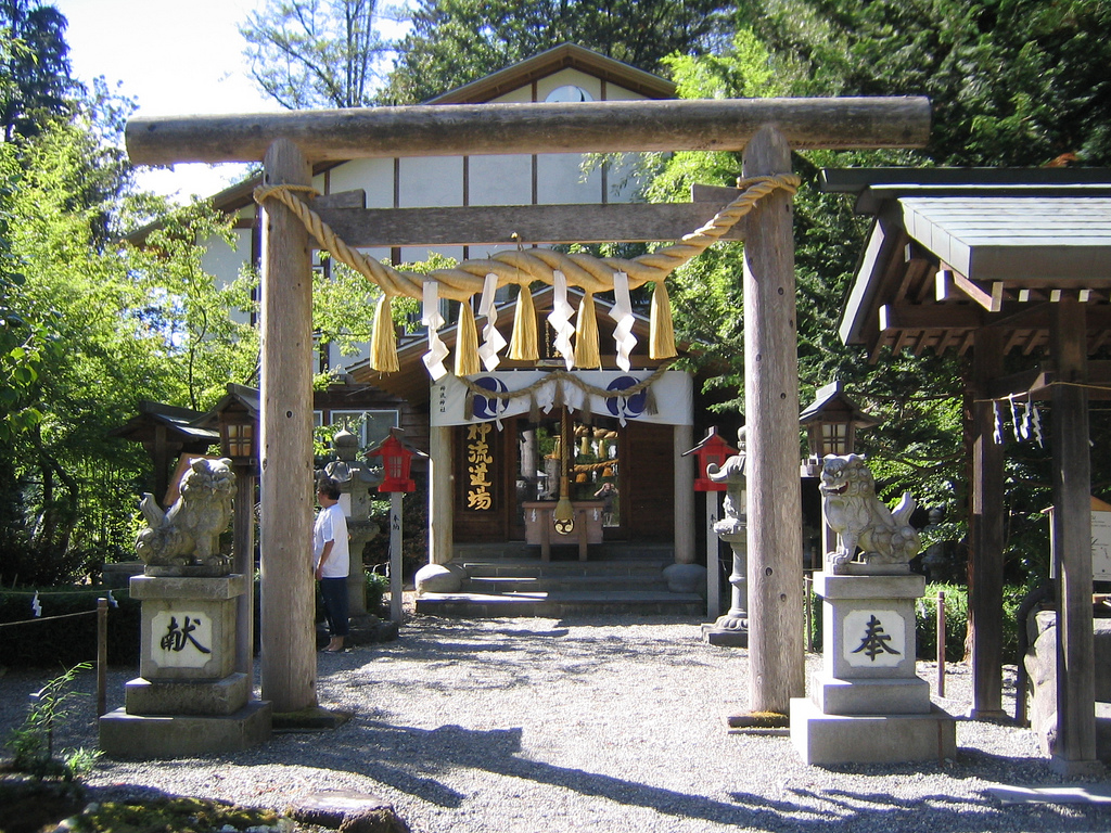 Taken at the Tsubaki Grand Shrine of America, Granite Falls, WA